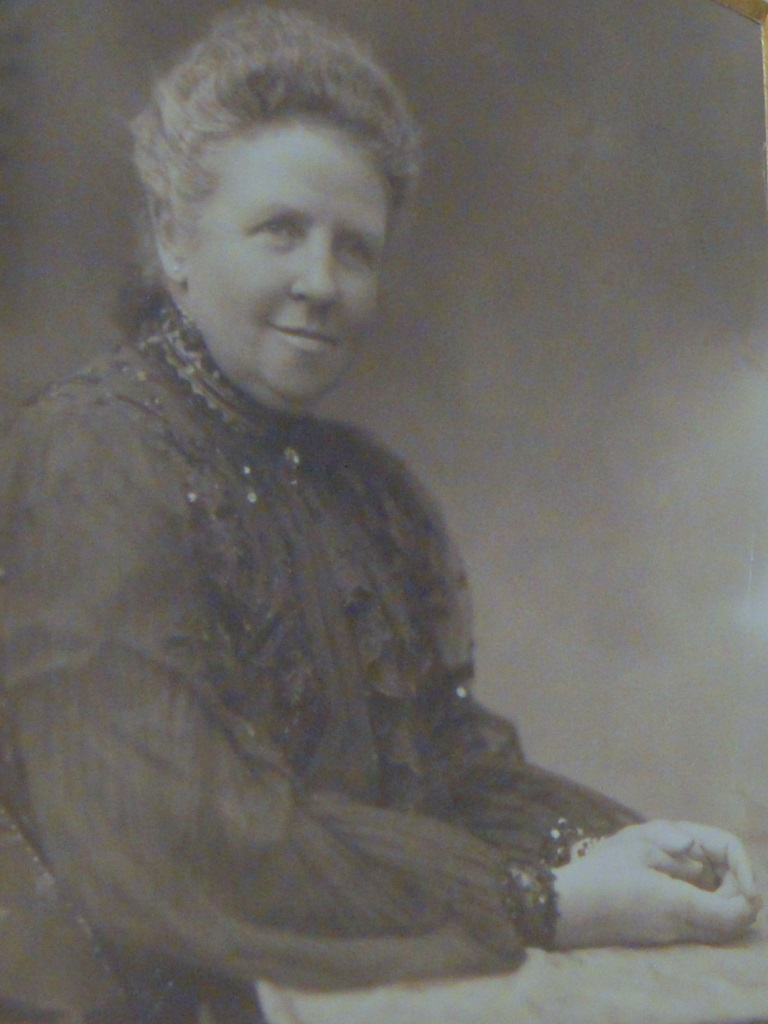 Friederike Bröll, 1905 (?), Frankfurt – Photo in the Album of Allgemeiner Deutscher Frauenverband (Universal German Women's Association) with photos of main activists, photo album, leather, cardboard, photo paper, about 1900. – Album in repository of Archiv der deutschen Frauenbewegung (Archive of German Women's Movement), Kassel, Signature NL-K-08; 39. Photographer: Rudolf H. Boettcher with permission of Historisches Museum Frankfurt (Historical Museum Frankfurt).